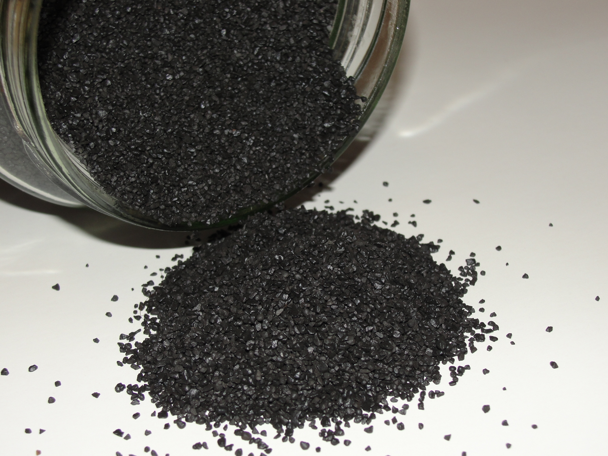 Black Powder in a Glass Jar (Moscow, Russia)